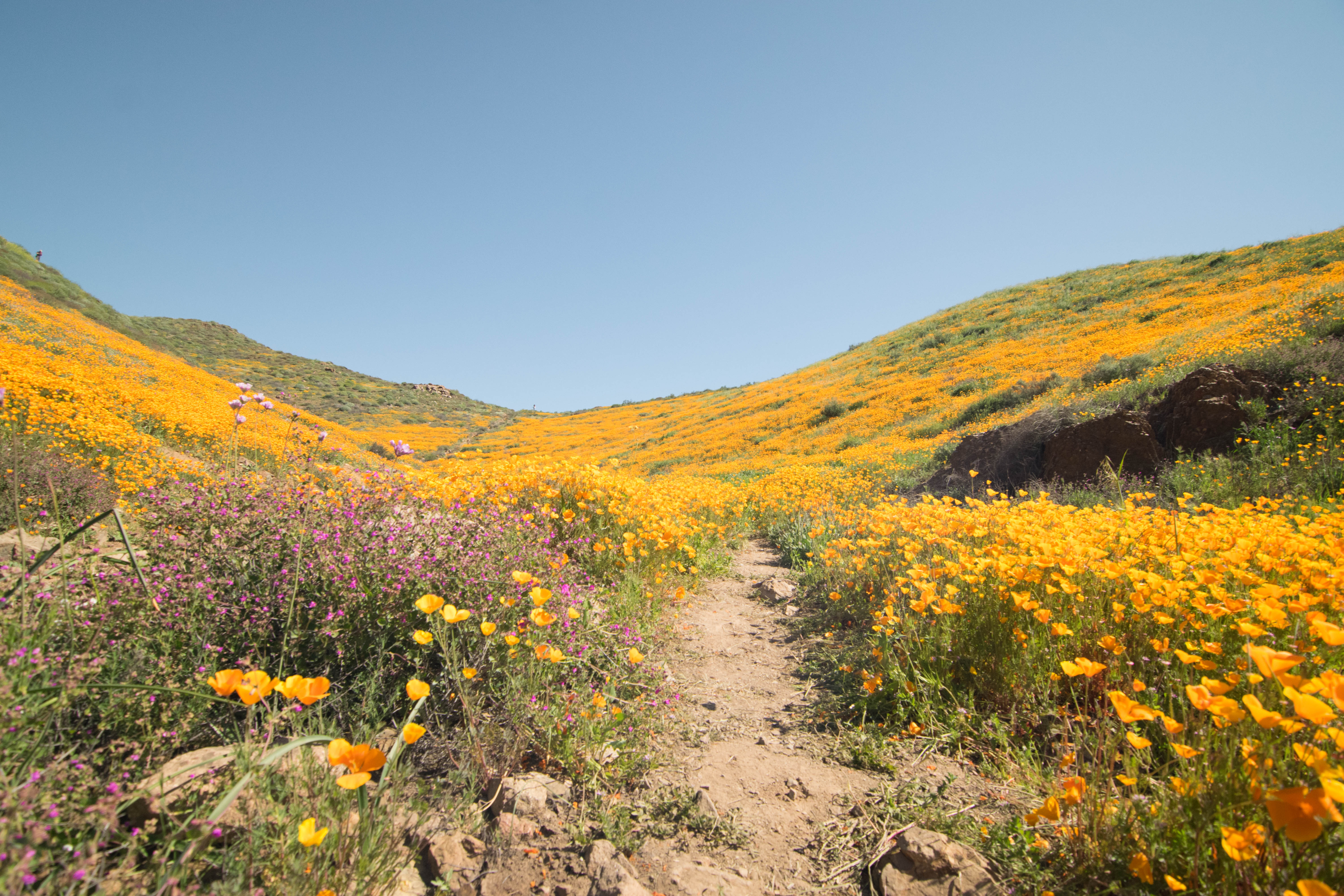 2017 California Super Bloom - California Poppies